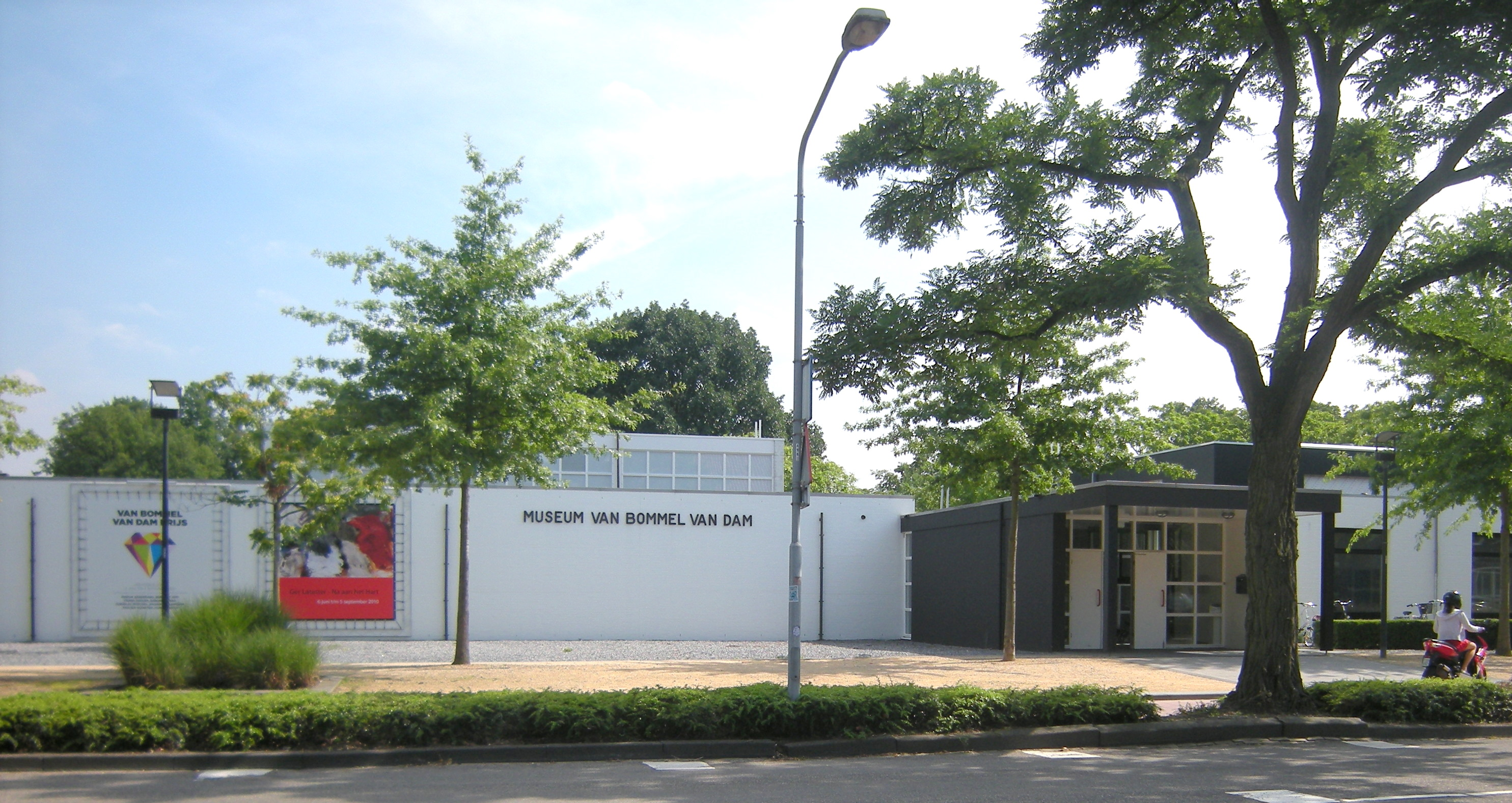 Art Museum Van Bommel-Van Dam Venlo